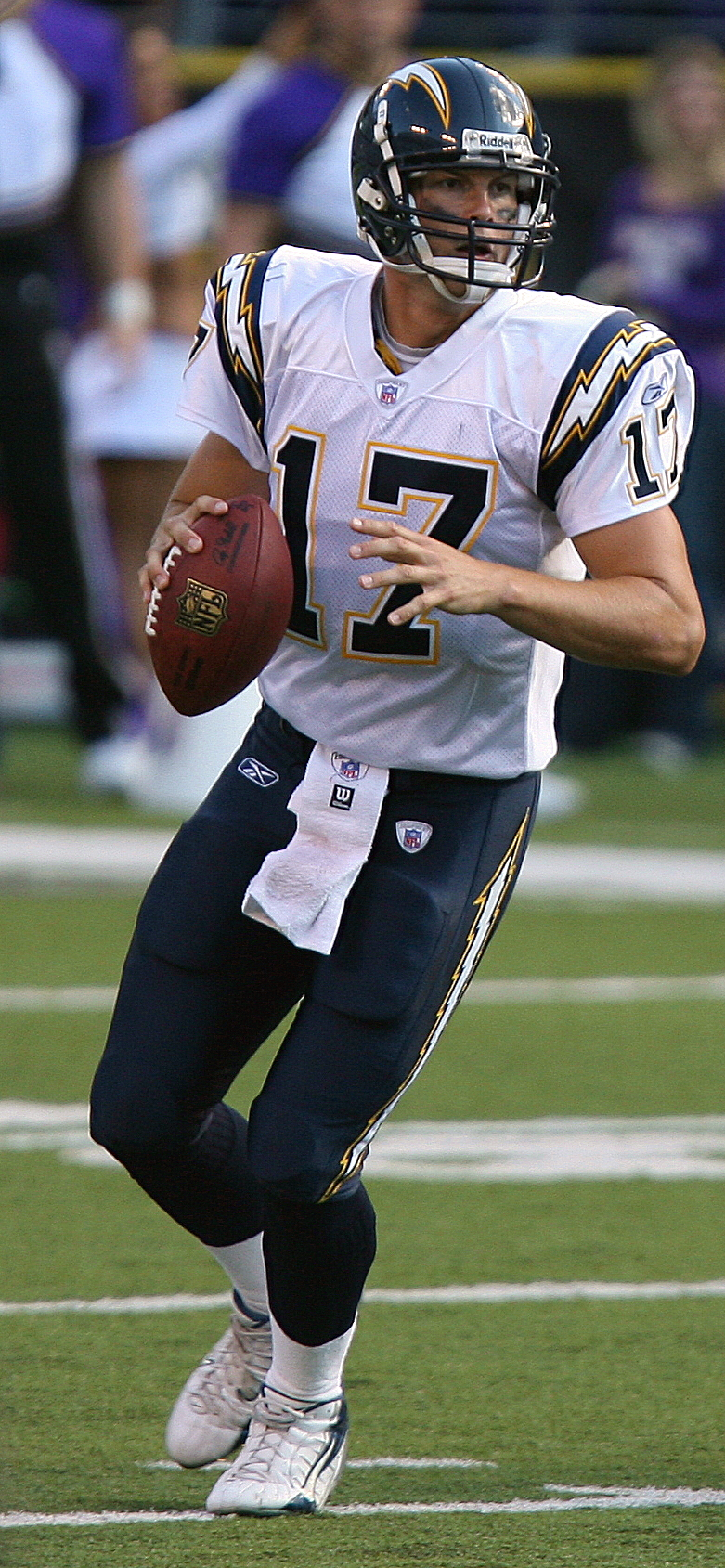 Philip Rivers, American football quarterback for the San Diego Chargers